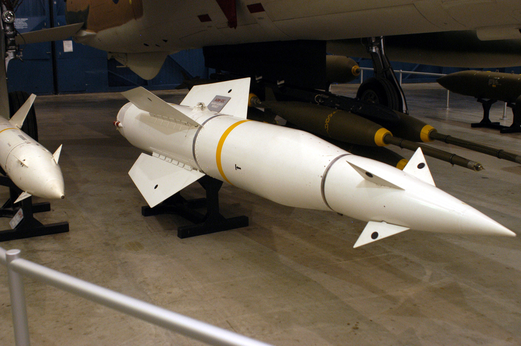 DAYTON, Ohio - Martin AGM-12C Bullpup B on display at the National Museum of the U.S. Air Force. (U.S. Air Force photo)